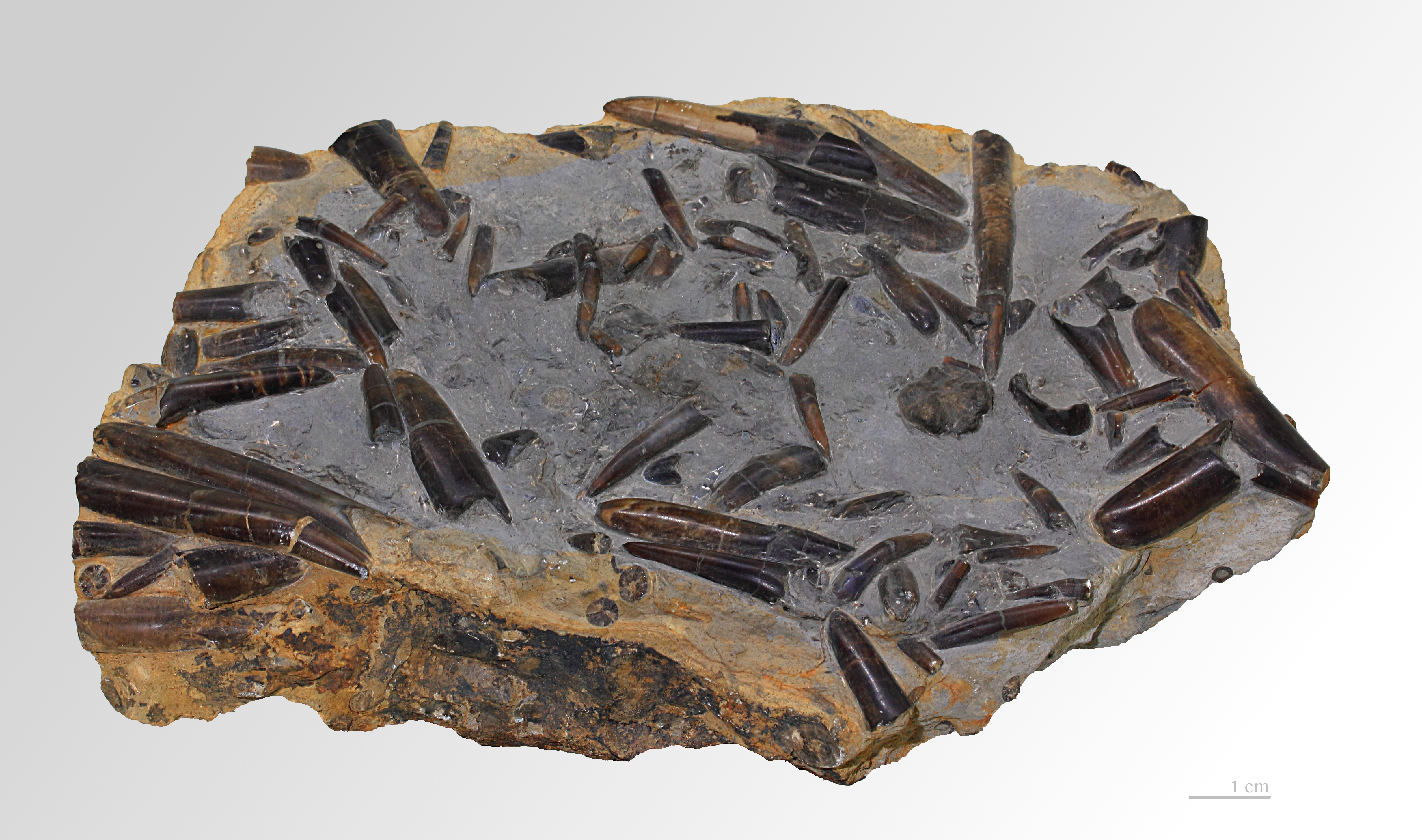 Belemnoids fossil.